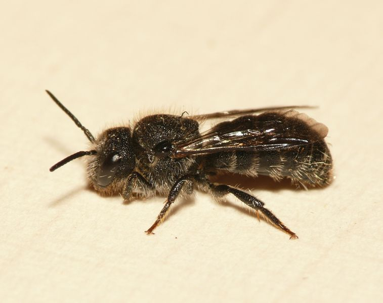 Stelis punctulatissima, male. Location: Rhenen - Blauwe Kamer - Gelderland (The Netherlands)